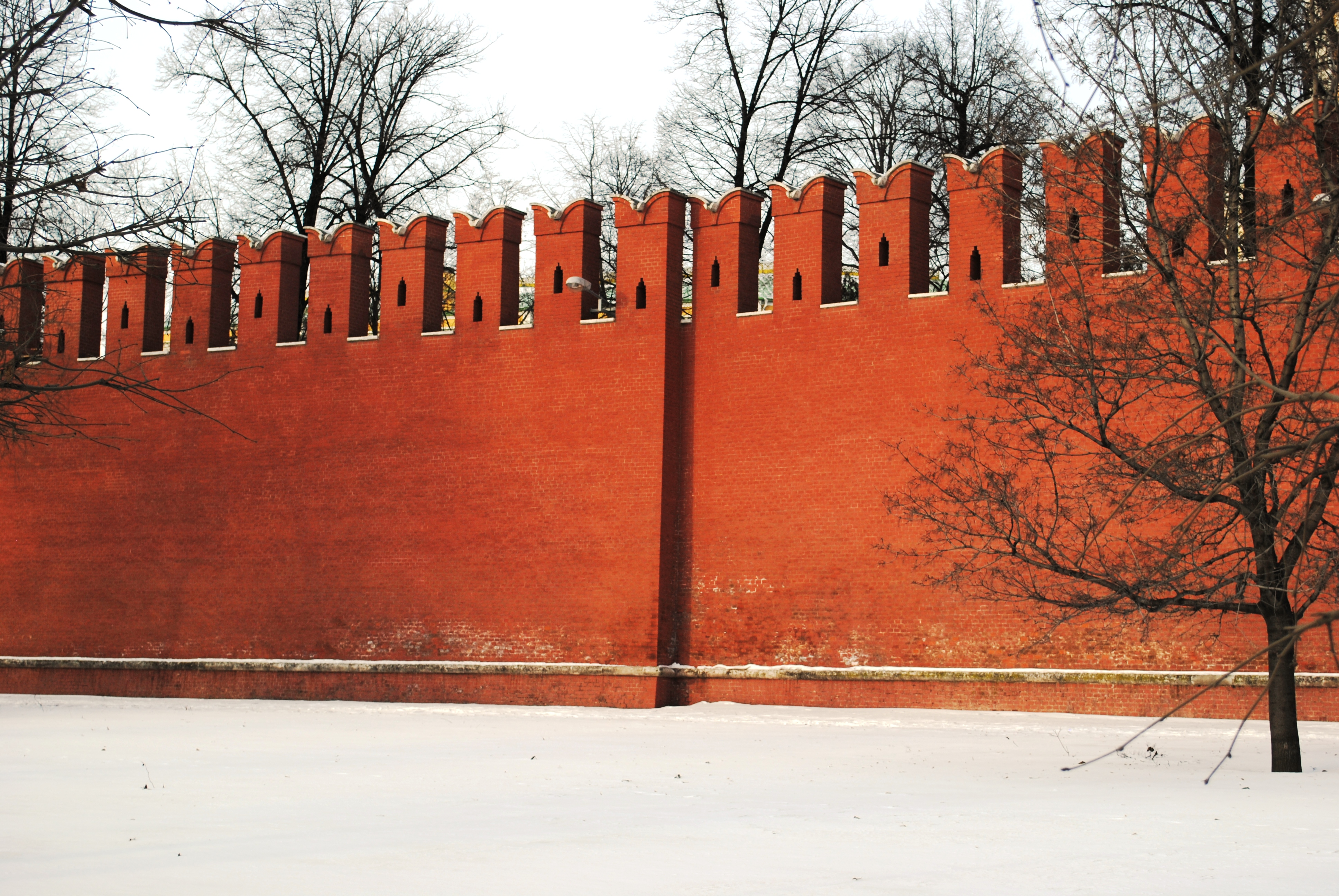 Kremlin Embankment